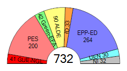 Composition of European Parliament